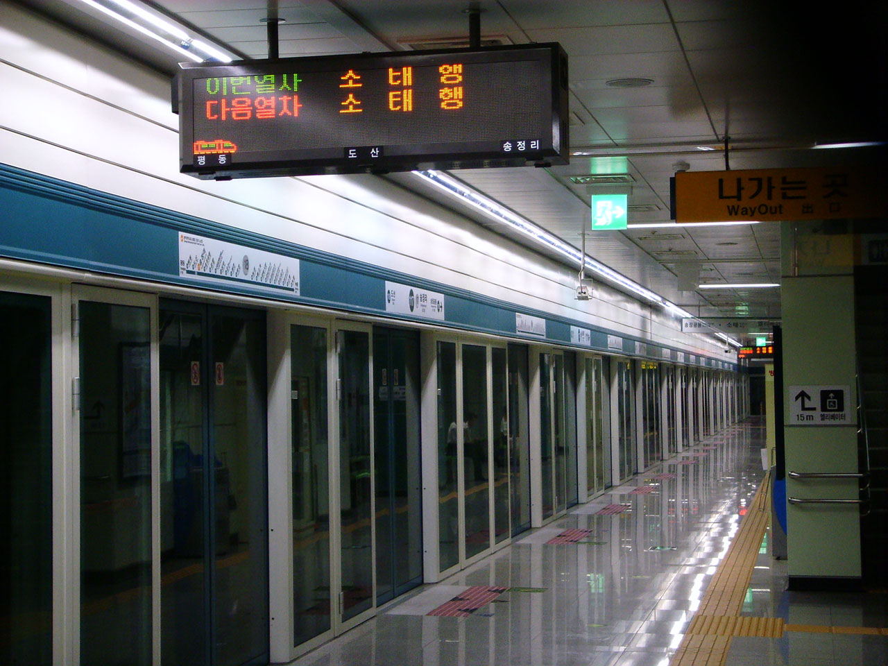 Gwangju Subway Line 1 Songjeong-ri Station